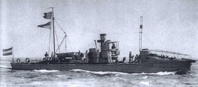 HNLMS Christiaan Conrelis a Dutch torpedoboot